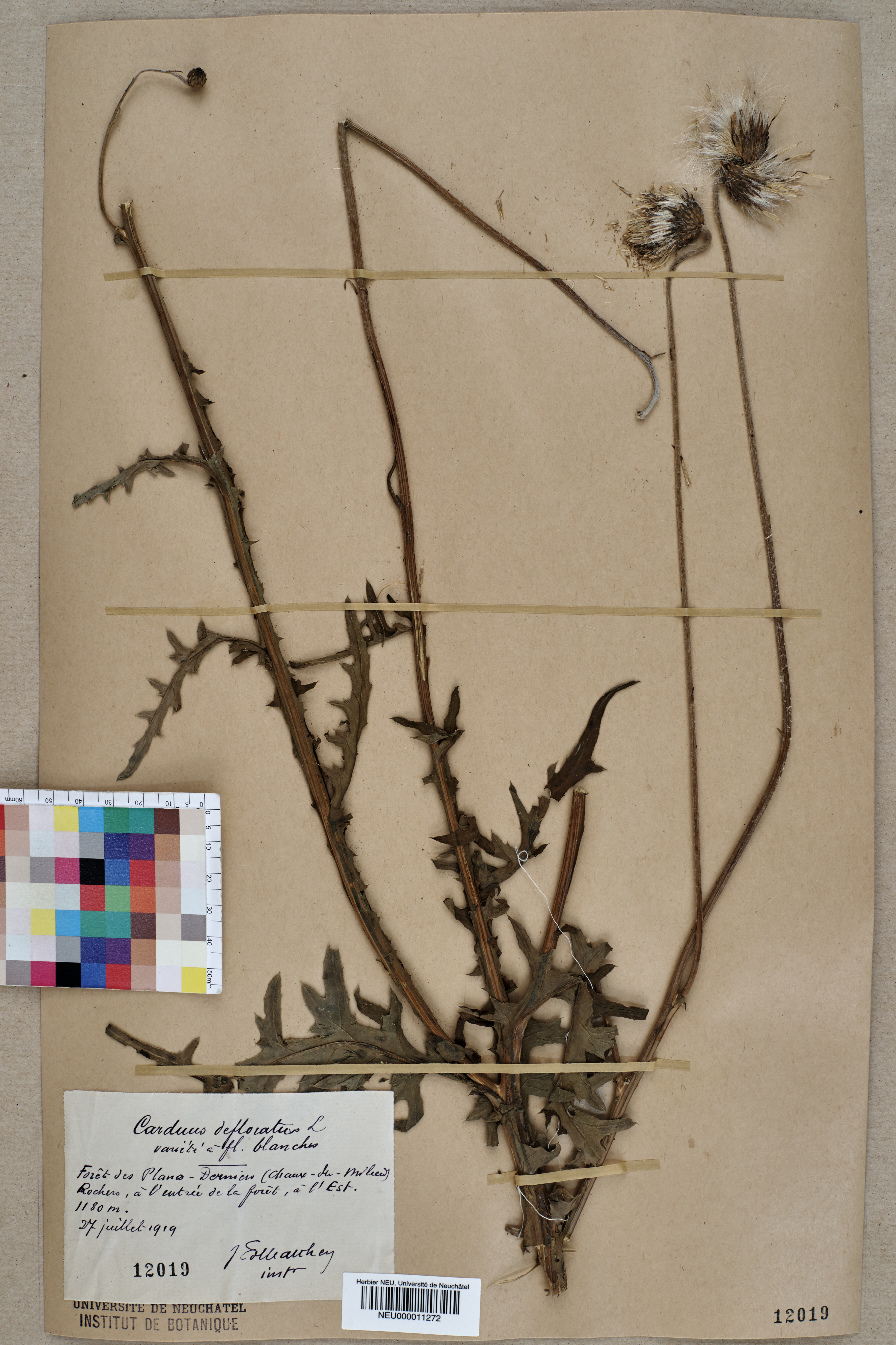 Dried pressed specimen of Carduus defloratus